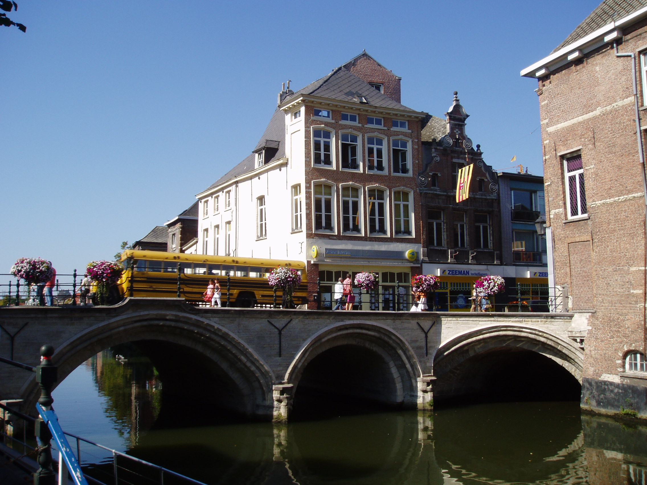 Bridge over Dyle in city of Mechelen, Belgium